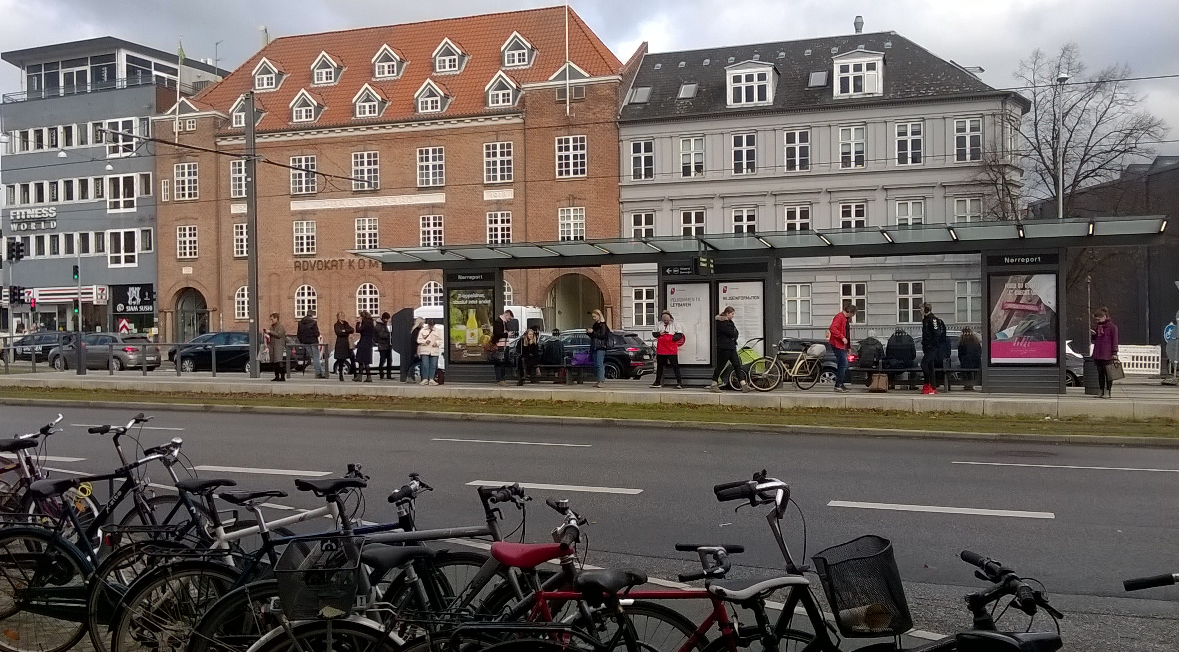 Nørreport Station (Aarhus C)